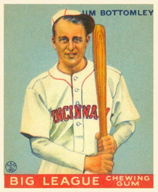 1933 Goudey baseball card of Jim Bottomley of the Cincinnati Reds #44.